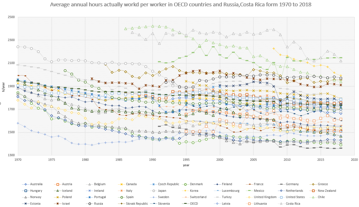 Average annual hours actually worked per worker in OECD countries from 1970 to 2011. Source OECD